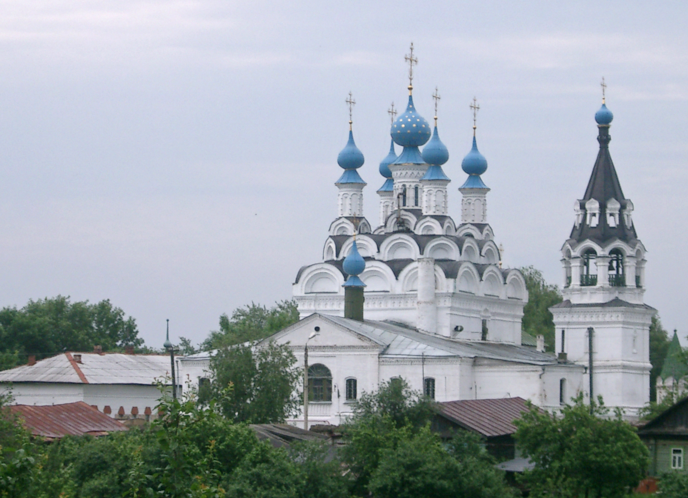 Catherdal and bell tower of Blagoveschensky Monastery in Murom, taken from North-East